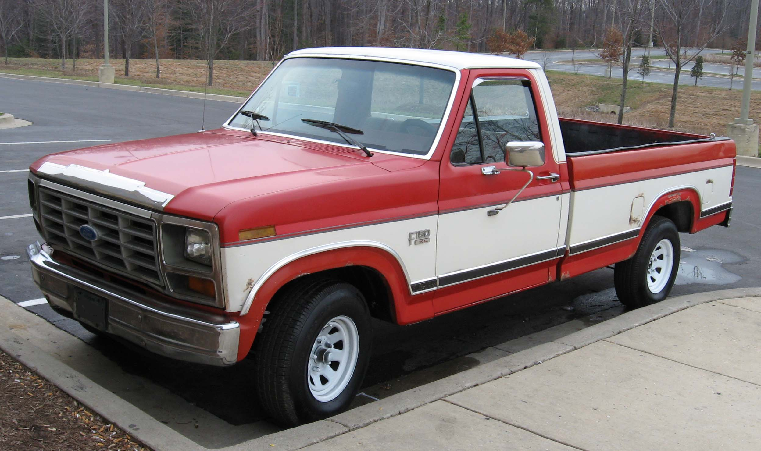 1982-1986 Ford F-150 photographed in USA.